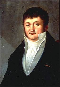 Partial portrait of Robert Surcouf